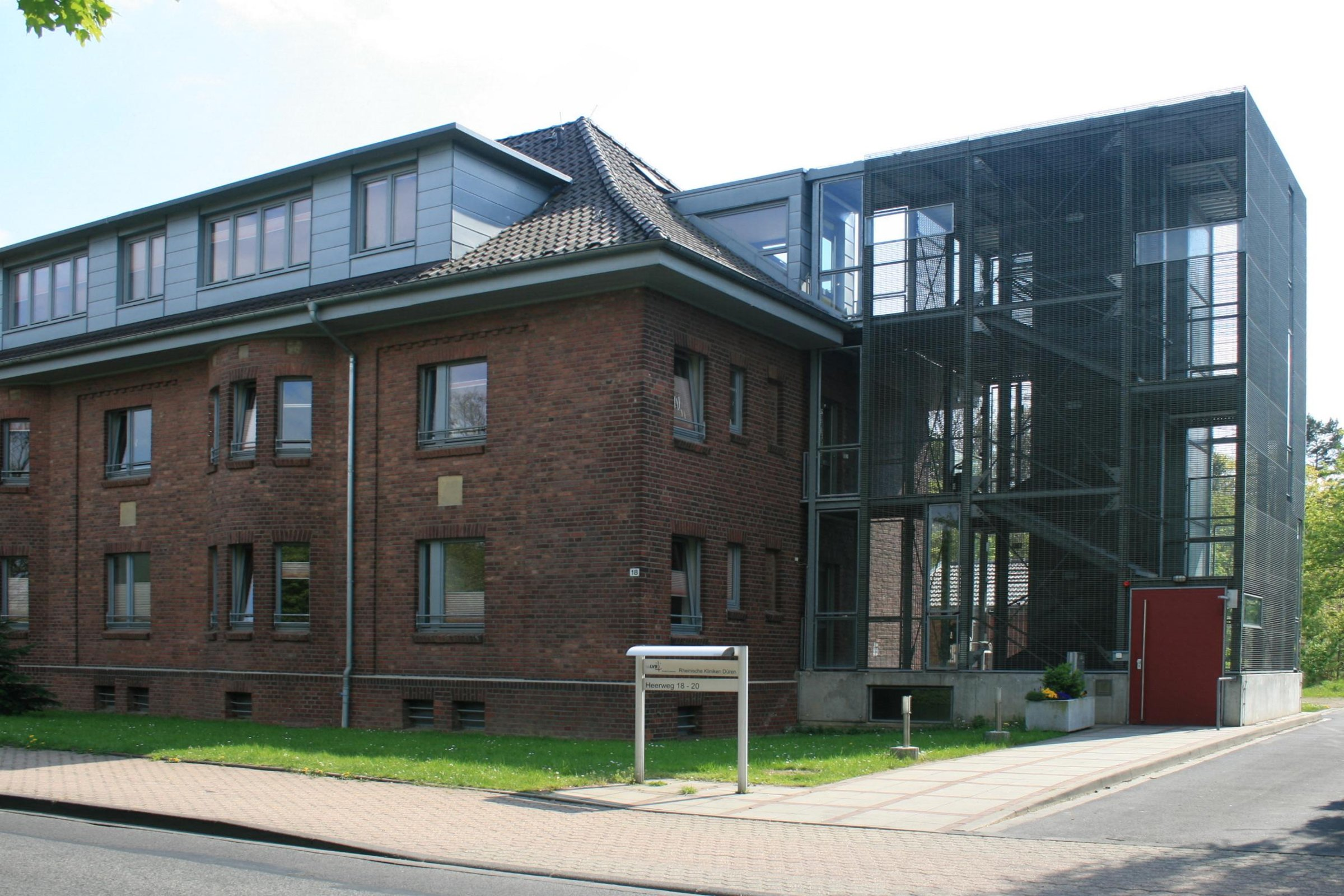 Cultural heritage monument No. 1/001v in Düren